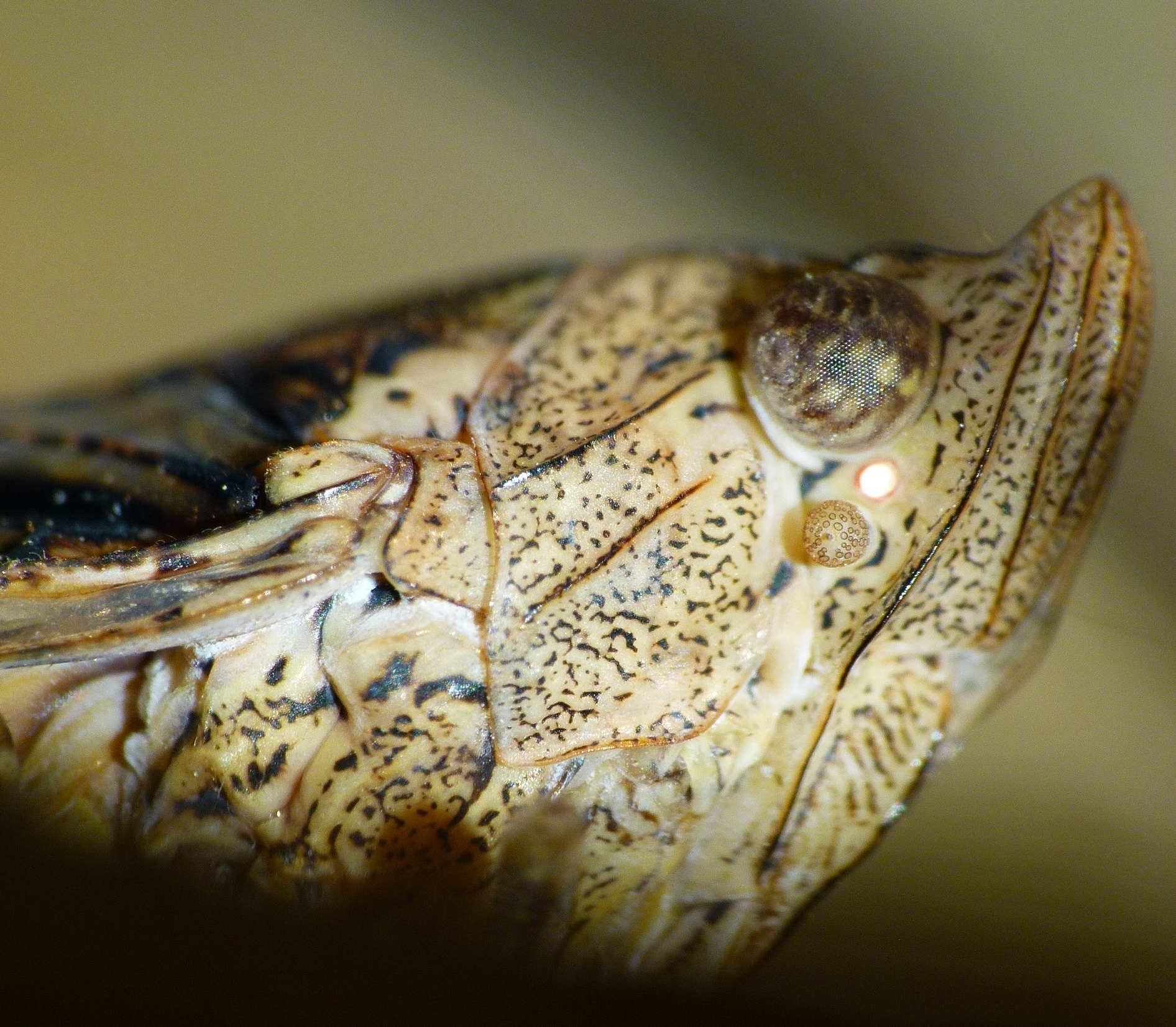 Dichoptera hyalinata, Fulgoridae, Bangalore, India